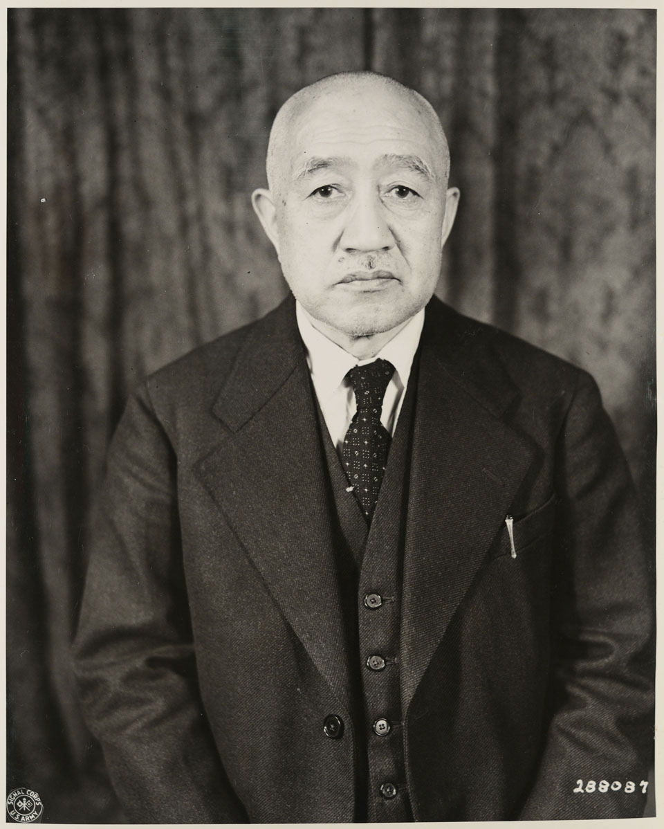 Kenji Doihara during the trial for war crimes at International Military Tribunal for the Far East